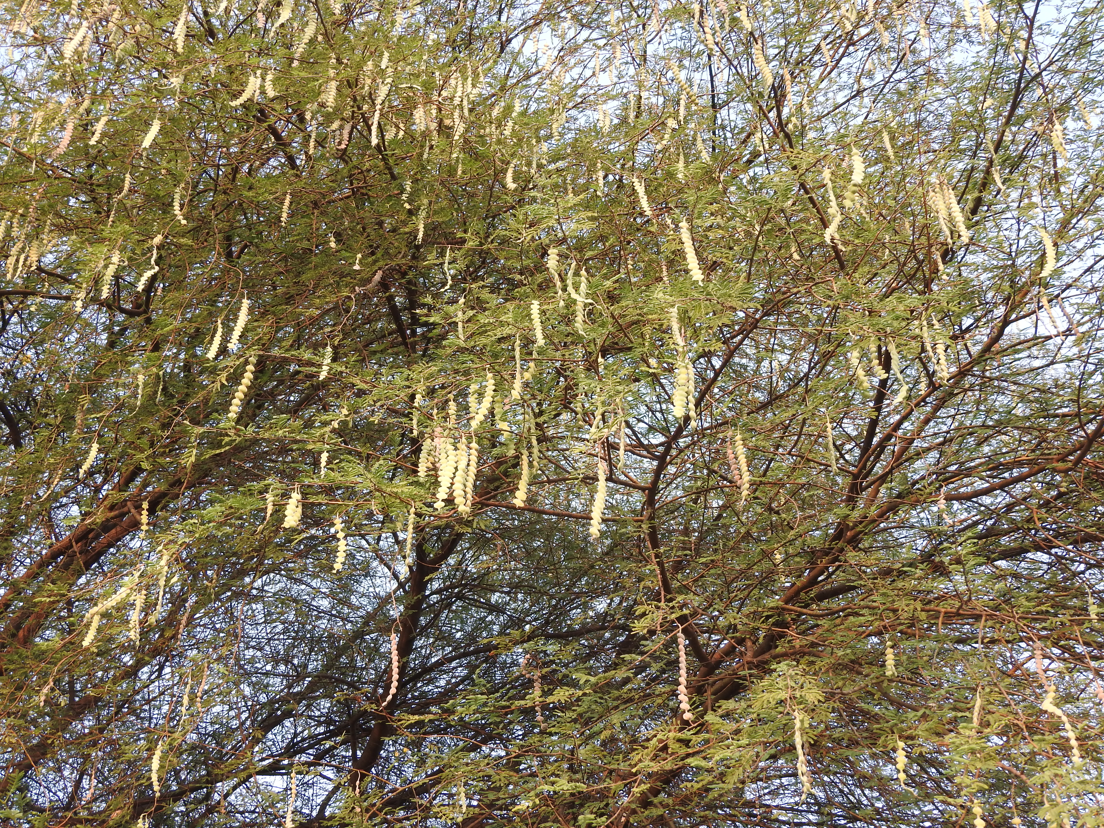 Mimosaceae-karuvelam;pod stipilata,moniliform.